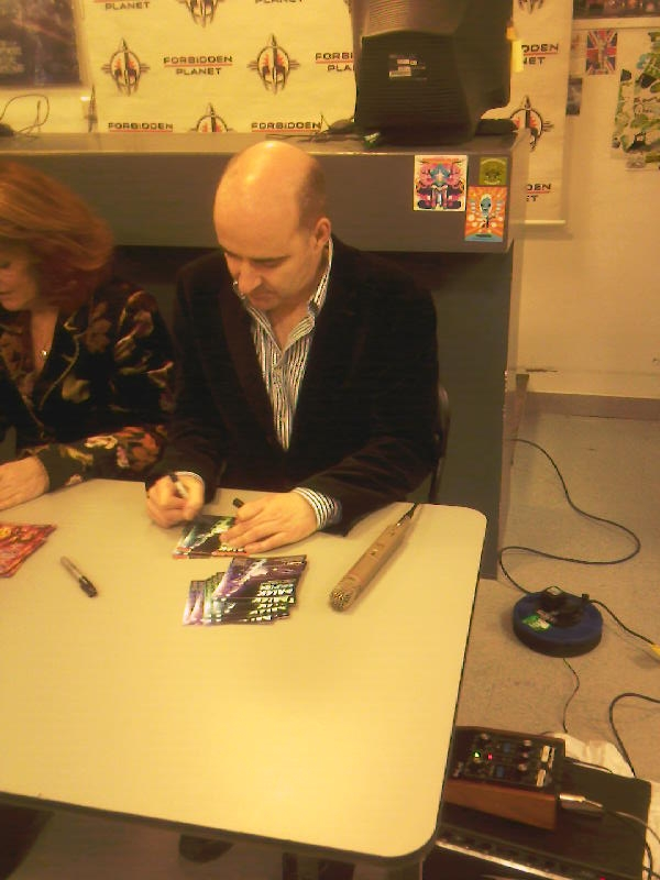 The very funny Nick Briggs, complete with Dalek voice machine, in a rare moment of quiet. If you'd like to hear it, try this!